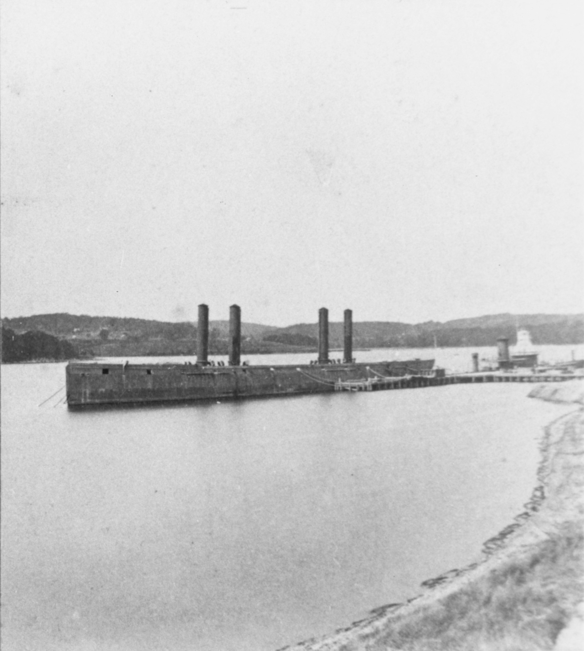 The screw frigate Nevada (formerly named Neshaminy and Arizona) at New London Naval Station, Groton, Connecticut, ca. 1871-1873. Built for service with the US Navy in the American Civil War, Nevada was never completed and never commissioned. She was sold for scrap in 1874. Image is from a stereograph.